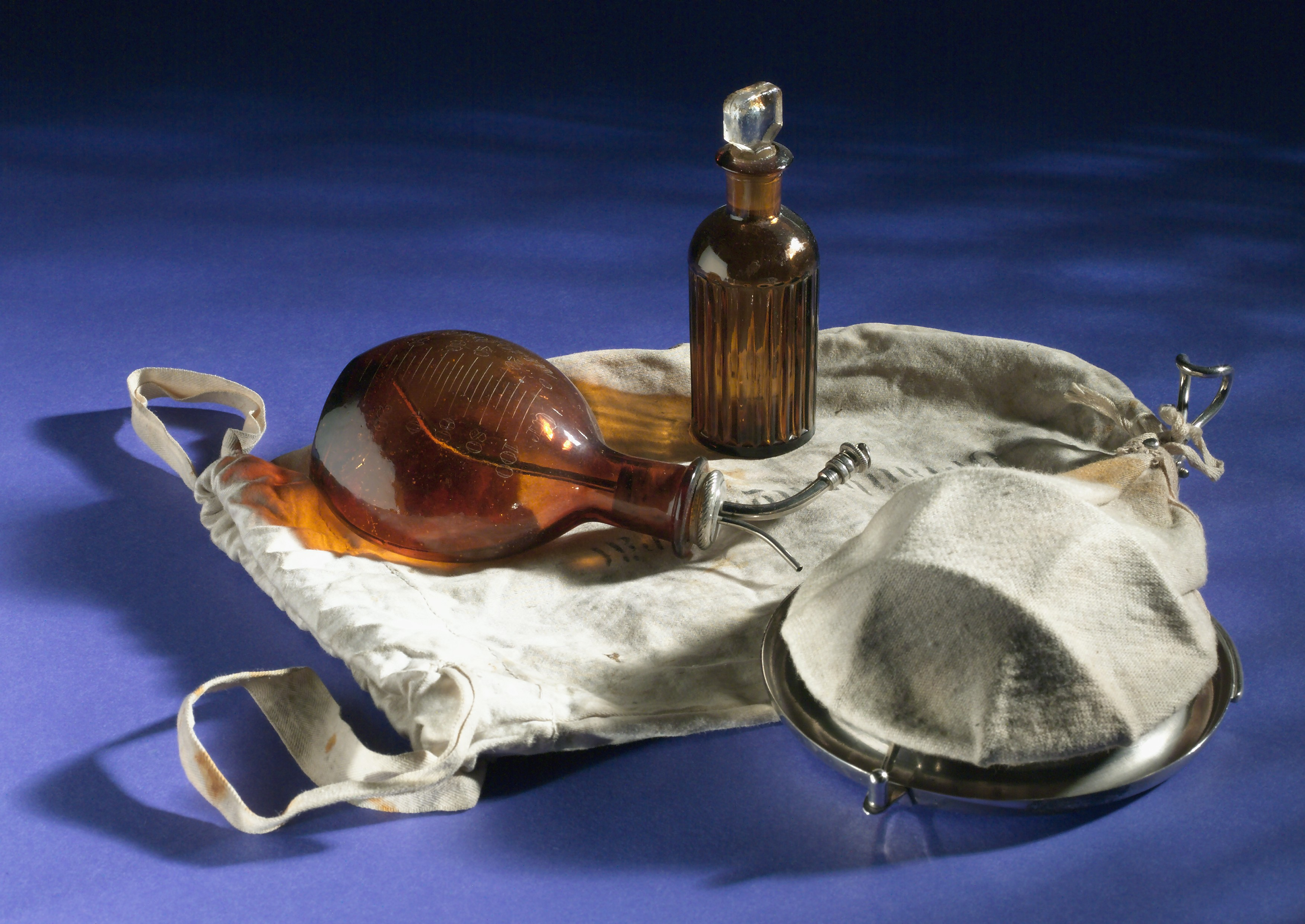 This anaesthetic kit would have been intended for use by the German Army during the First World War. Liquid anaesthetics such as ether or chloroform would be dropped on to the cotton cover from the brown glass bottle and inhaled by the patient before surgery. The bottle has a scale engraved on to the side to keep track of the dosage. Too much chloroform is dangerous but too little does not numb the patient. The cotton cover is stretched over a folding nickel-plated Schimmelbusch mask. The mask was designed by Curt Schimmelbusch (1860-1895), a German pathologist and surgeon. The kit is kept in a cotton bag labelled "Betäubungsgerät" – which translates from the German as “stunning equipment”. maker: Unknown maker Place made: Germany Wellcome Images Keywords: chloroform mask; anaesthetic; Chloroform; inhaler